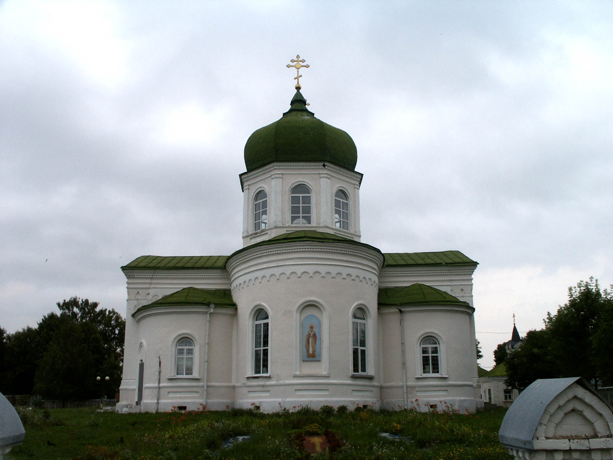 Alexander Nevsky Cathedral in Mstislavl, Belarus